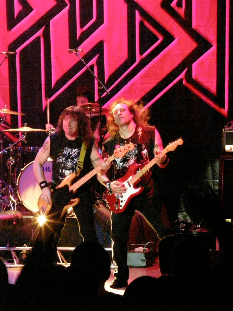 Vladimir Holstinin and Vitaly Dubinin, from heavy metal band Aria, performing at a show in Vladivostok